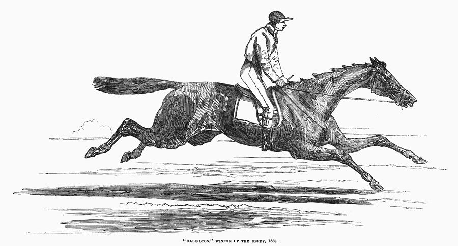 Etching of 1856 Epsom Derby winner Ellington. From the Illustrated London News.